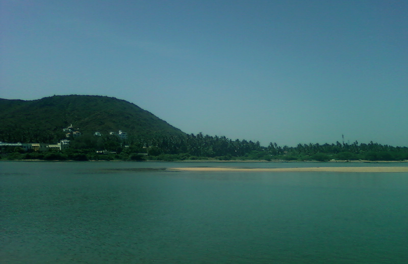 A View of Gosthani river at Bheemunipatnam, Visakhapatnam district